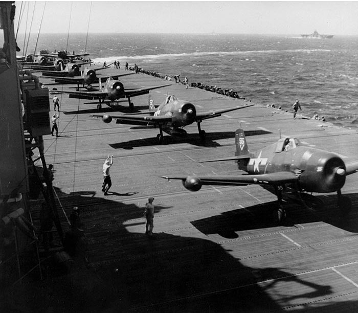 USS Ticonderoga (CV-14). Grumman F6F "Hellcat" fighters prepare to take off for strikes against targets in Manila Bay. The two leading planes are F6F-5N night fighters, with wing-mounted radar. Photograph is dated 9 January 1945, but may have been taken during the 5-6 November 1944 attacks.